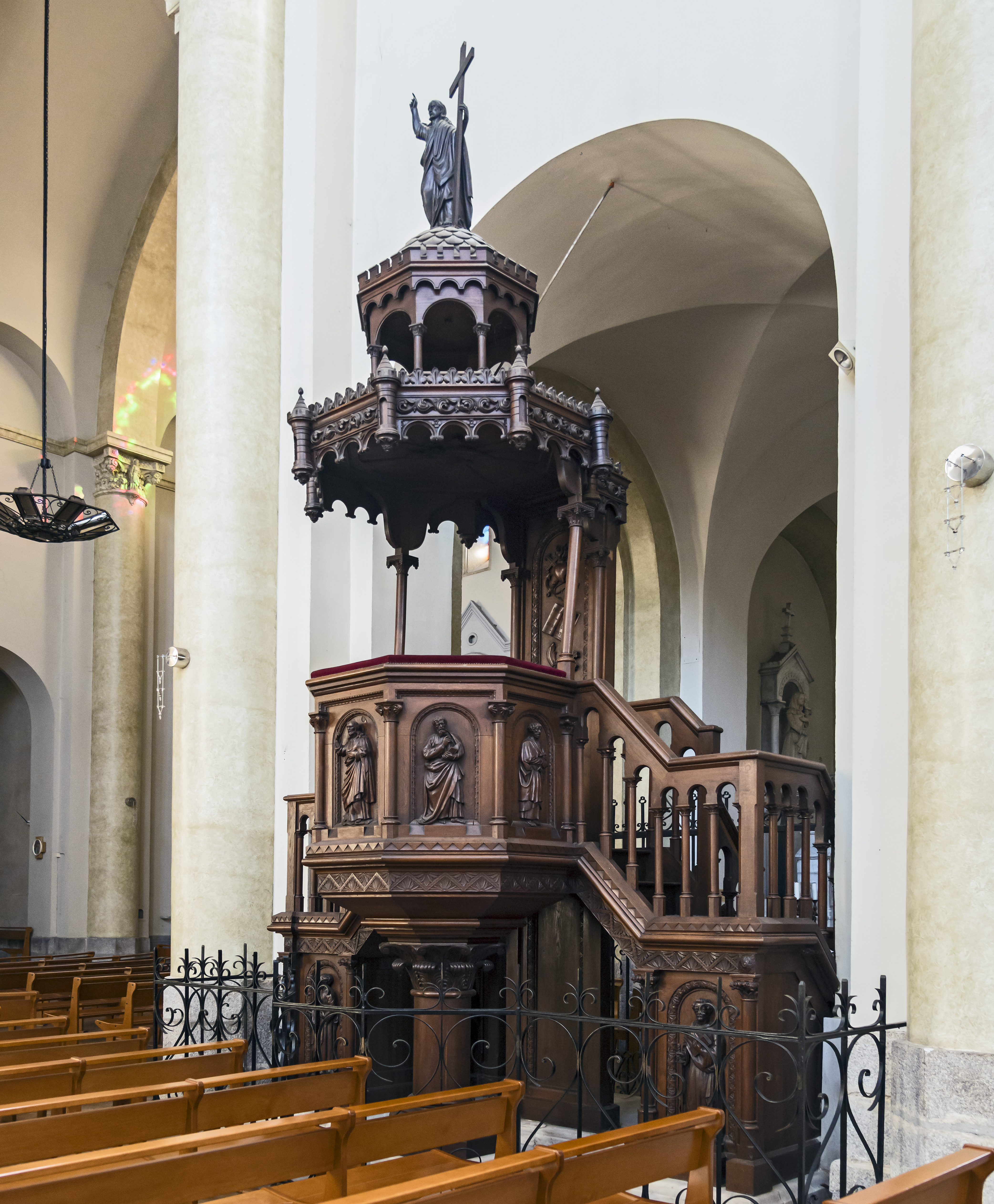 The Church "Notre-Dame" in Revel, Haute-Garonne, France - The pulpit by Theodore Heuillet cabinetmaker and Gasc sculptor in Castres in 1874.